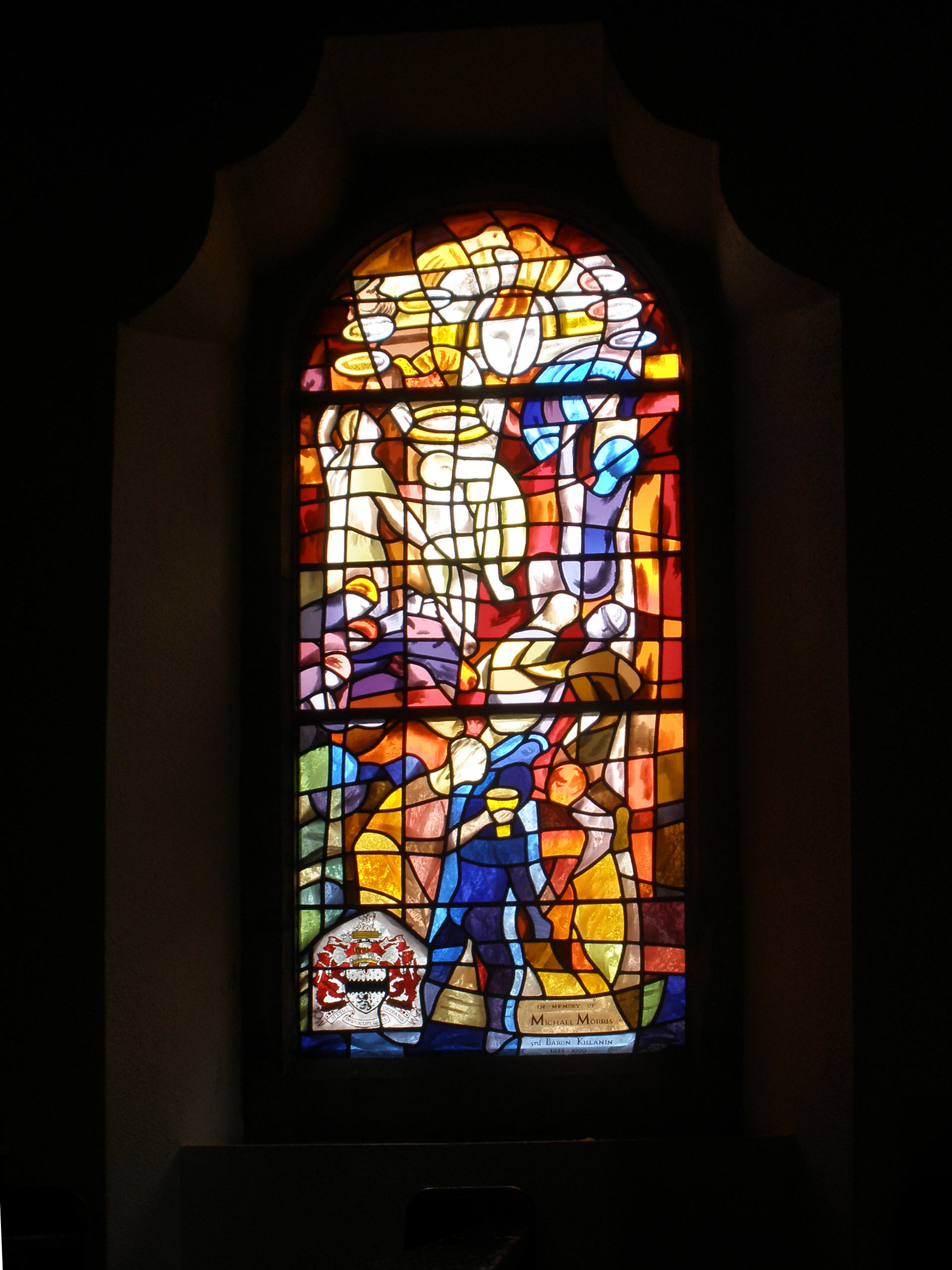 Stained glass window commemorating Michael Morris, 3rd Baron Killanin, at Cill Éinne, An Spidéal (St. Enda's Church, Spiddal, Ireland). The window contains a note at the bottom: "In memory of Michael Morris 3rd Baron Killanin 1914-1999".